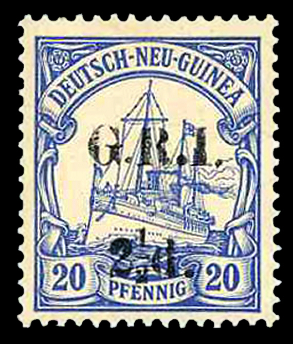 stamp series for German Colonies with British overprint Ausgabepreis: 2 1/2 Pence First Day of Issue / Erstausgabetag: 1914 Michel-Katalog-Nr: 6 II (Deutsche Kolonie Neu Guinea unter Britischer Besetzung)